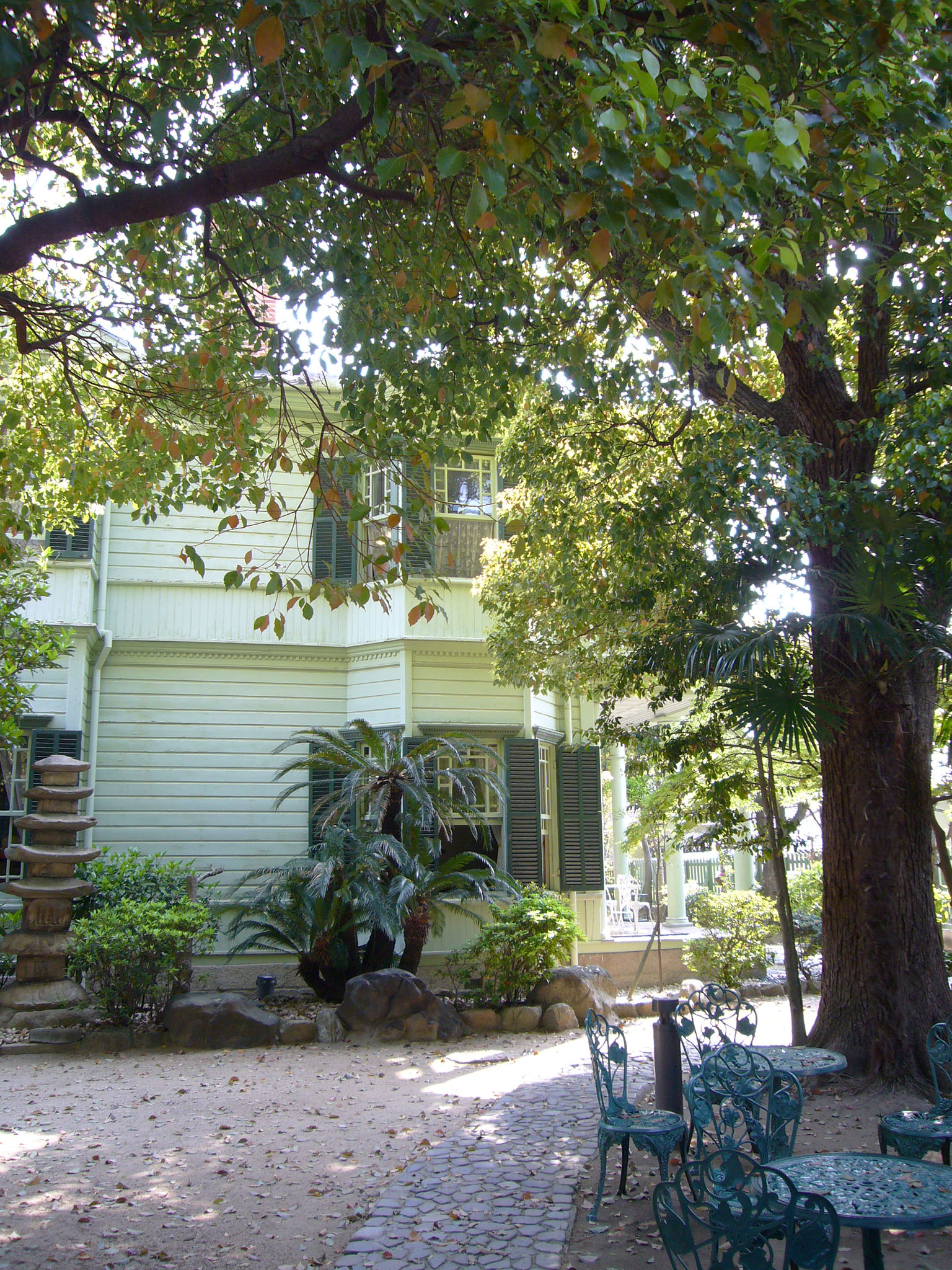 Old Sharp House in Kobe, Japan